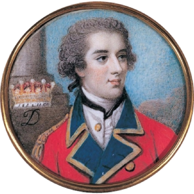 Ensign William Augustus West, Viscount Cantelupe, later 3rd Earl De La Warr (1757-1783)